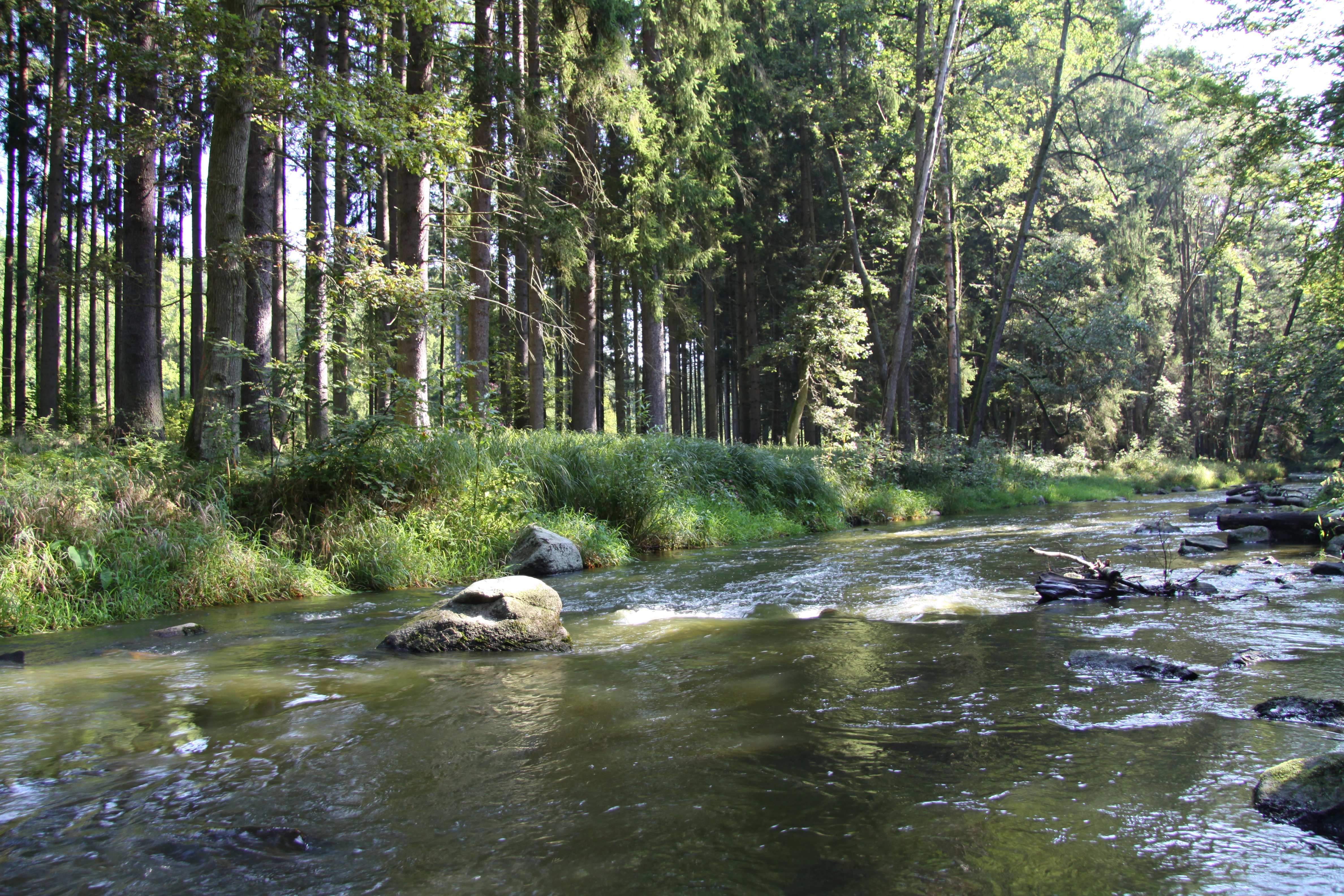 Natural monument V Obouch with Lomnice River in Písek District, Czech Republic.